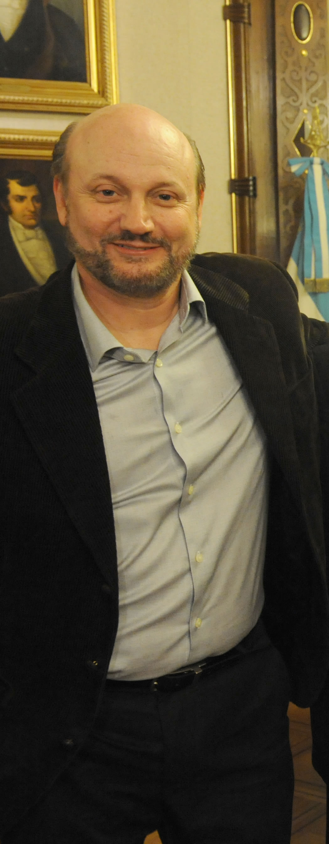 Argentine film director, Juan Jose Campanella in Casa Rosada (argentine government building). Buenos Aires.